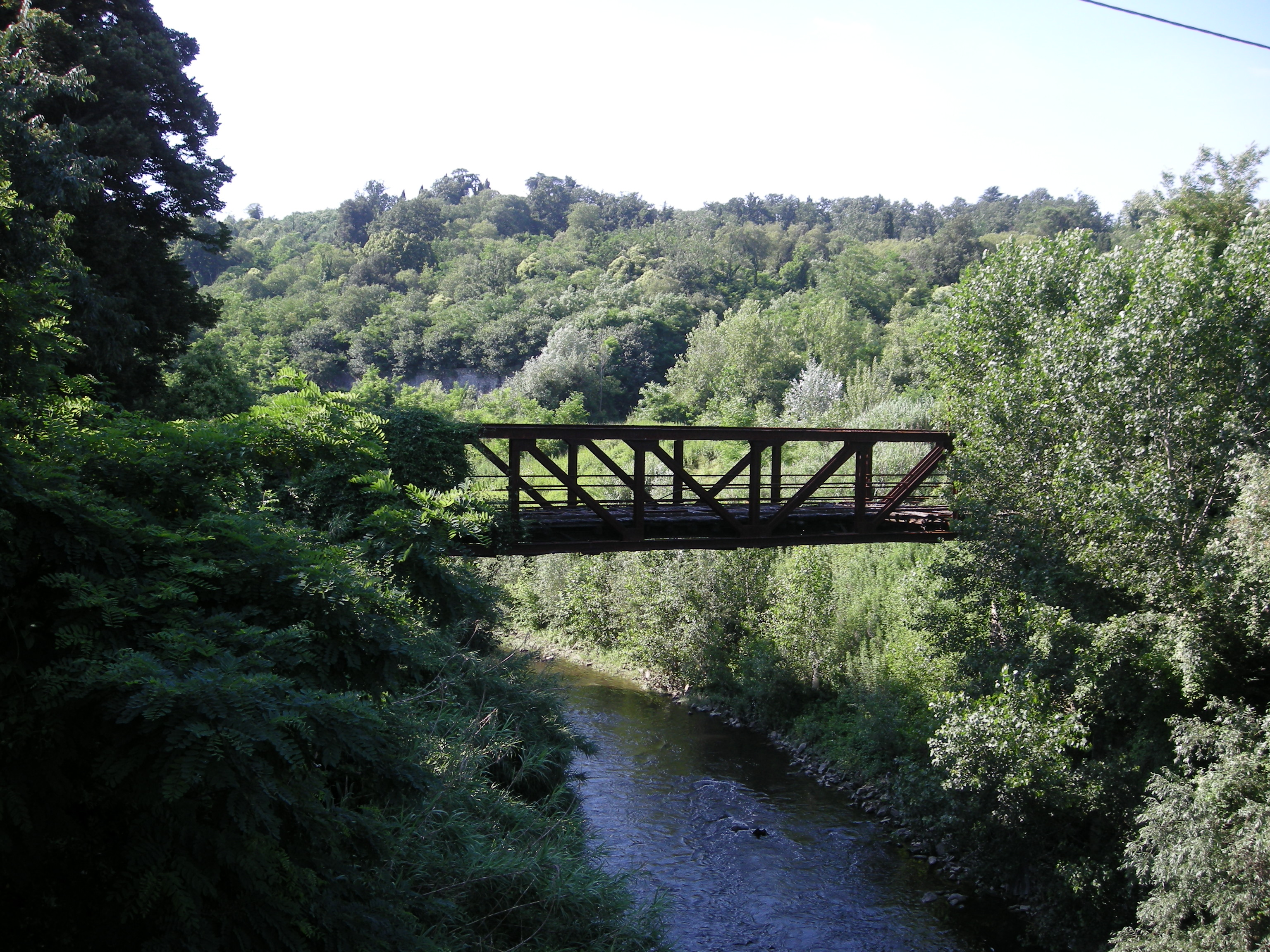 Signa (FI), Italy.